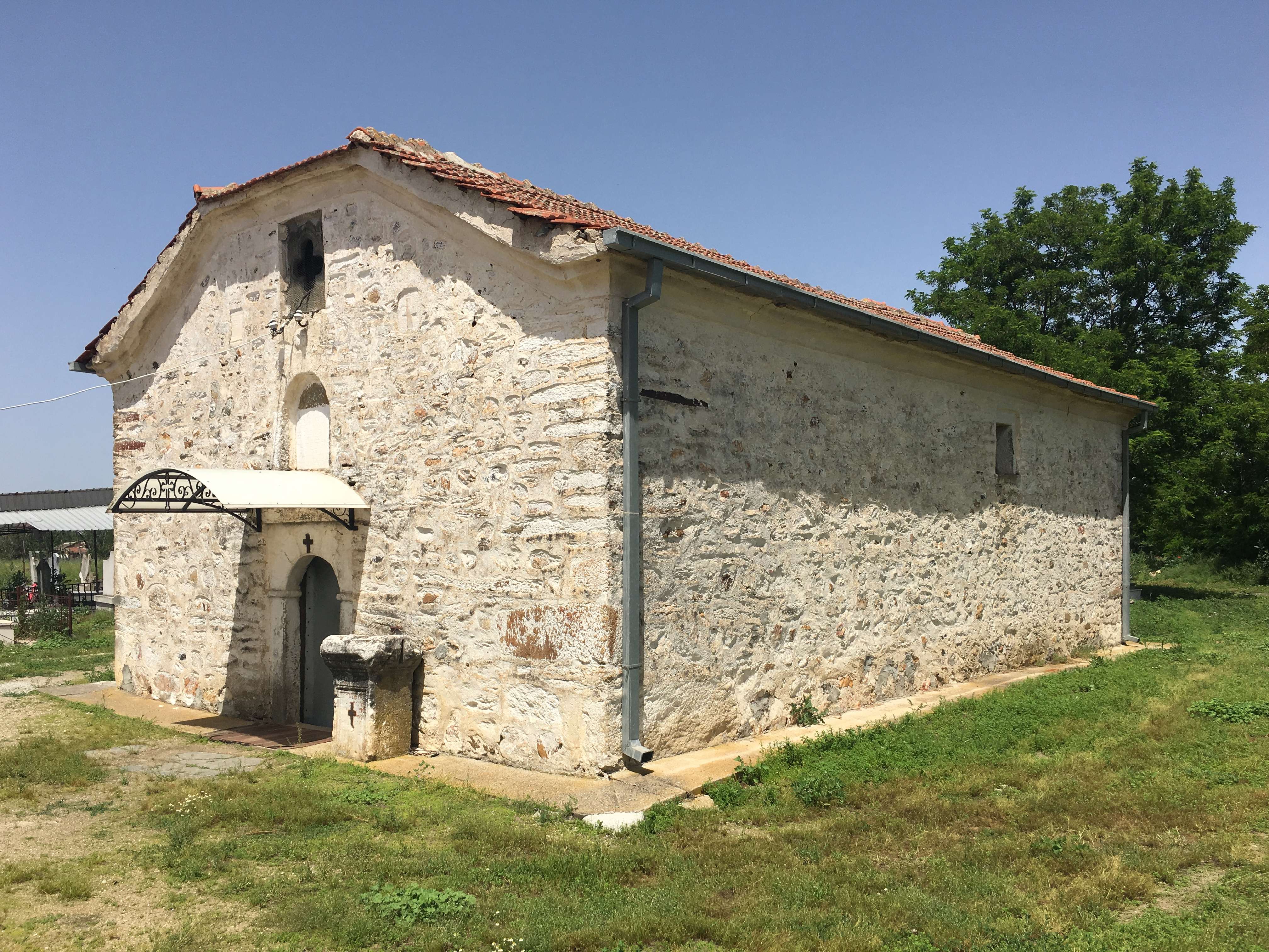 St. Nicholas Church's yard in the village of Nošpal